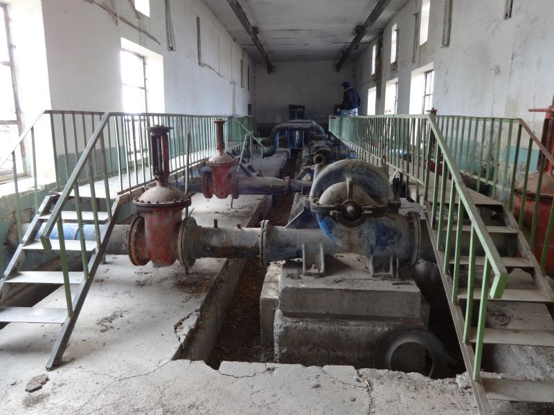 Gharibjanyan pumping station.